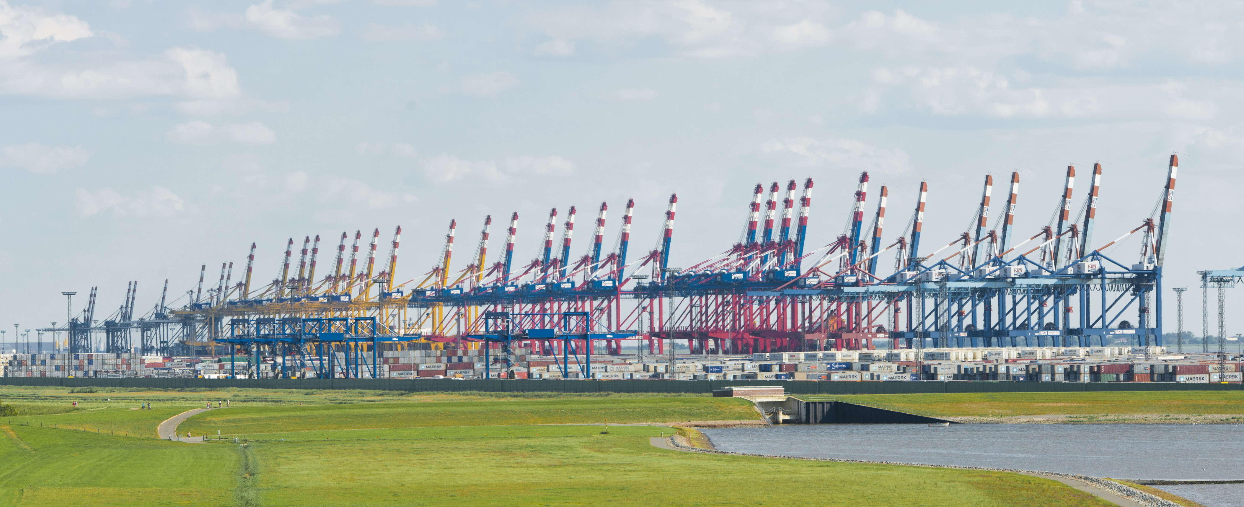 Container Terminal in Bremerhaven, Germany (Whitsunday - one of three days in the year without loading)